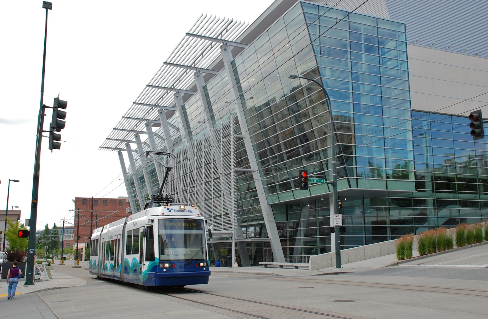 Tacoma Link streetcar 1003 northbound on Commerce Street at 15th Street, passing the Greater Tacoma Convention and Trade Center.